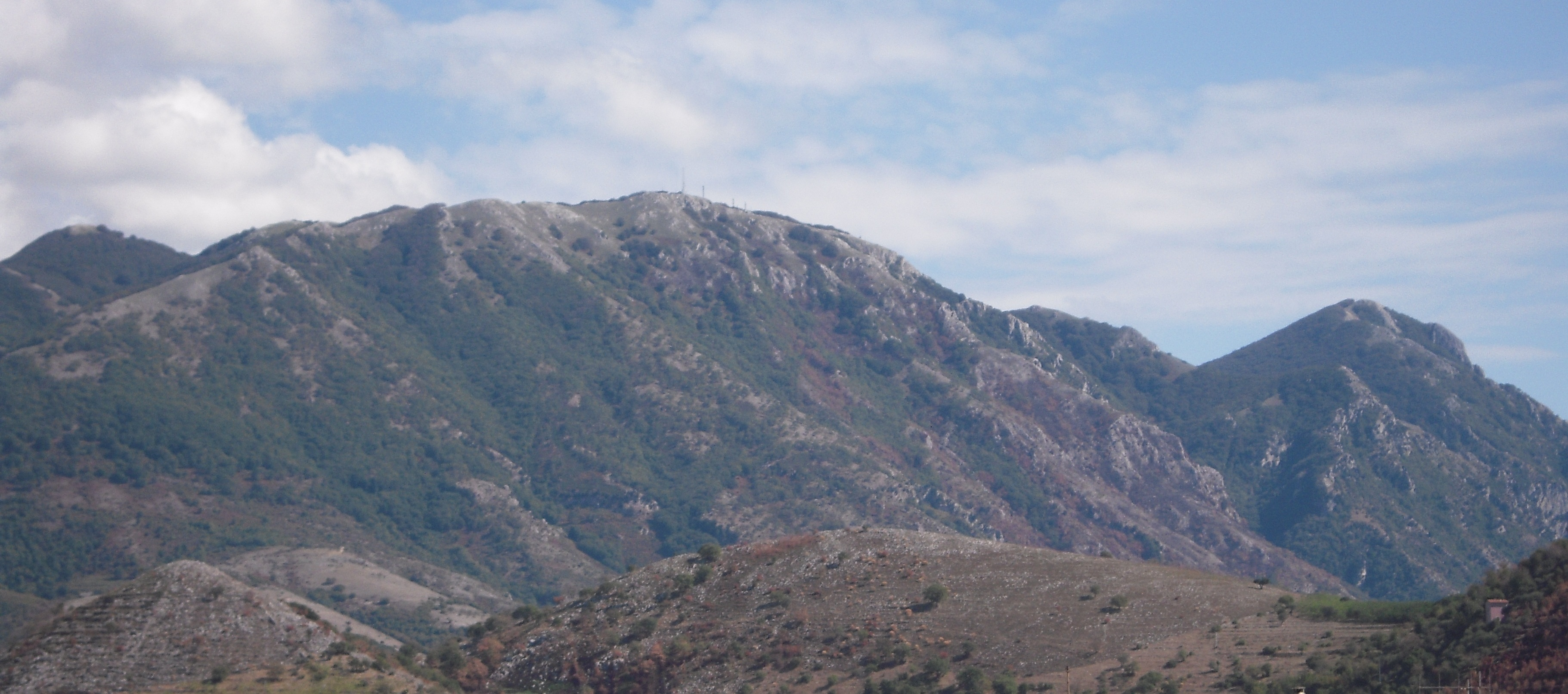 View of the Mount Taburno, as seen from the West (Sant'Agata de'Goti)